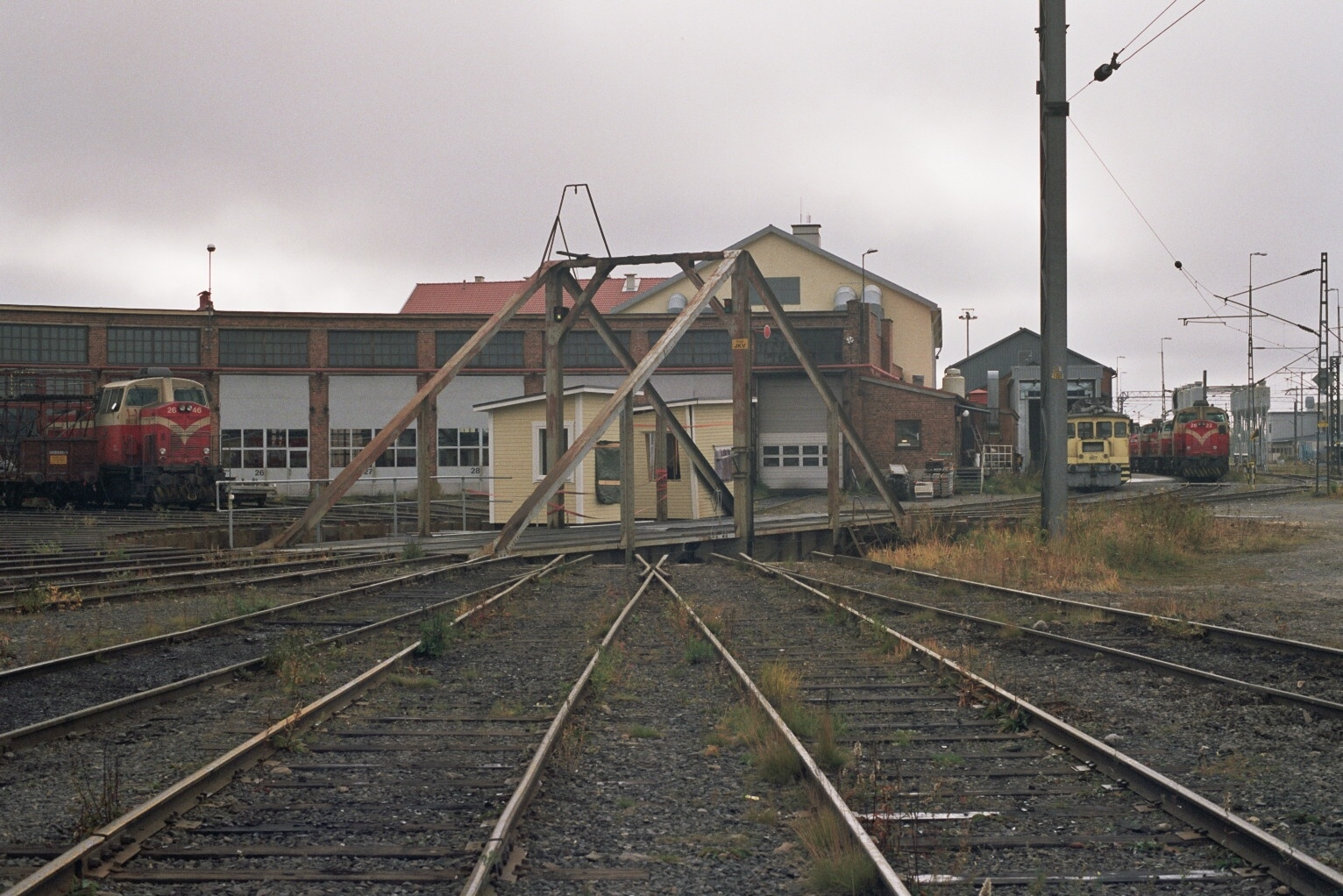 A turntable at the engine shed of VR in Oulu, Finland.